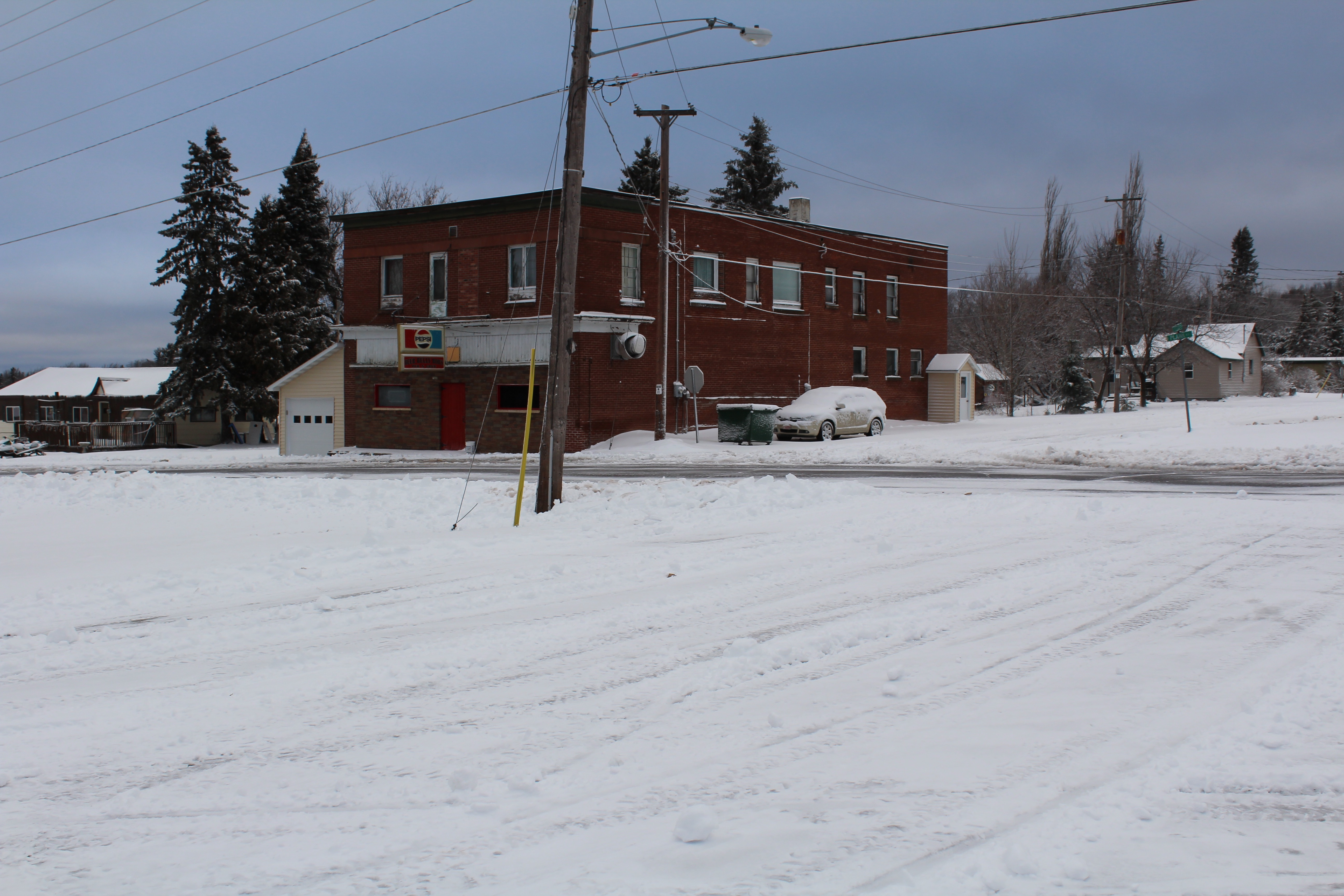 Bar In Greenland, MI